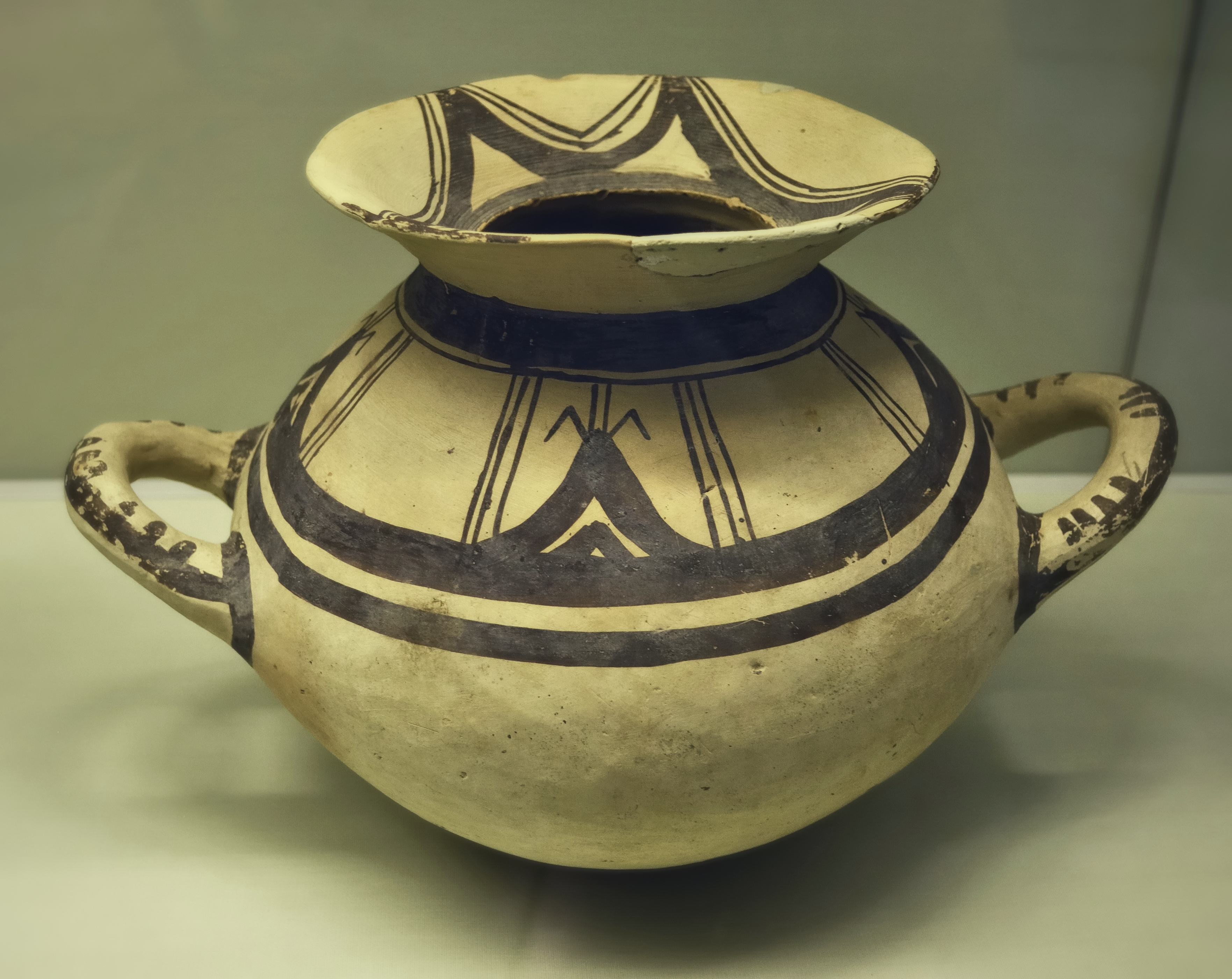 Picture taken in Hetjens-Museum Düsseldorf before Duisburg summer meetup 2010.